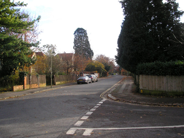 Charlbury Road (south), Oxford Looking south along the southern arm of Charlbury Road. The road on the right is Belbroughton Road